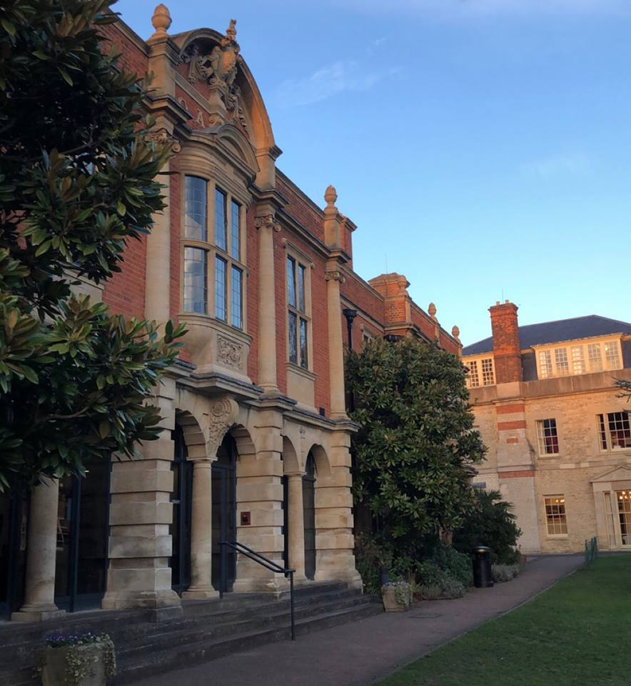 Somerville College Library with House in background